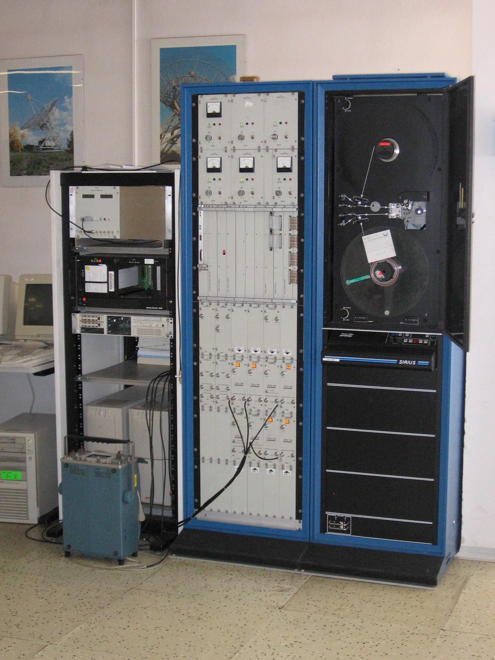 Torun VLBI terminal: Mark5 and VLBA formatters, Penny&Giles tape recorder, Mark5 disk recorder; author: Roman Feiler